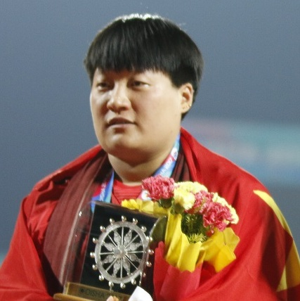 China's Guo Tianqian Won Silver during 22nd Asian Athletics Championships in Bhubaneswar.